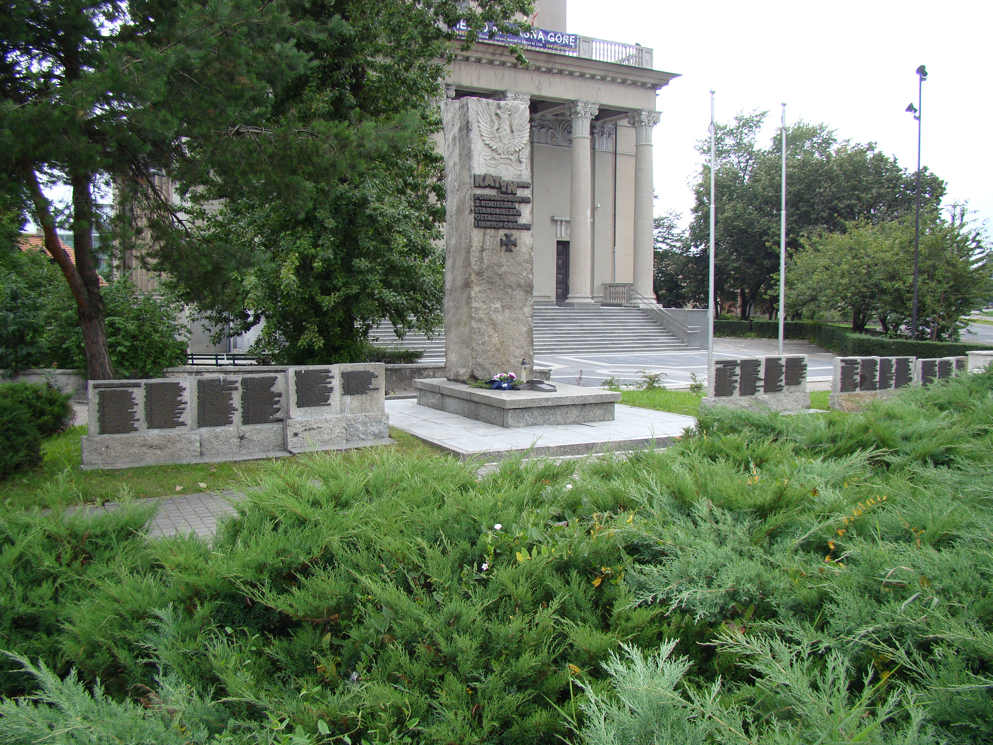 Katyn Memorial in Łódź